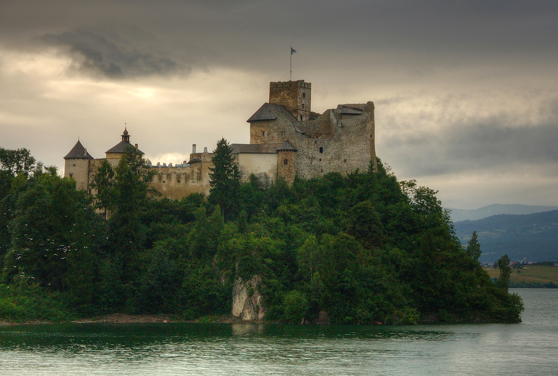 Niedzica Castle in Poland.